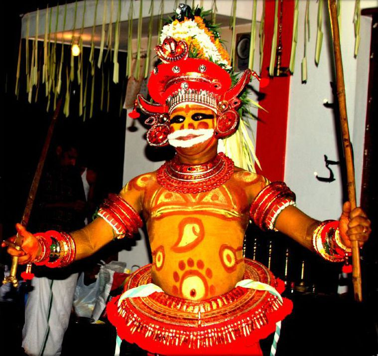 Theyyam or Theyyaattam is a pattern of hero worship performed in Kolathunaad, a territory comprising the present Cannanore District and Badagara Taluk of Kerala State (North Kerala). It is a ritual and a folk-dance form supported by a vast literature of folk songs. Theyyam is a corruption for Deyvam - ‘God’. 'Aattam' means dance. Thus 'Theyyaattam' means the God’s Dance. This is the Muthappan veLLaattam from Ancharakkandi, Kannur in Kerala, India - a ritual before the main theyyam.